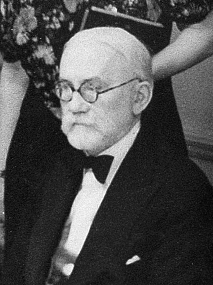 L0016246 A dinner to celebrate Melanie Klein's 70th birthday. Credit: Wellcome Library, London. Wellcome Images A dinner to celebrate Melanie Klein's 70th birthday, at Kettner's, London. W.1, 1952. Clockwise from left to foreground: Eric {Klein?}, Mr. Money-Kyrle, (behind them) Marion Milner, Sylvia Payne (standing), Melanie Klein, Dr. Jones, Dr. Resenfeld, Mrs. Riviere, Dr. Winnicott (sitting), Dr. Heimann, James Strachey, Gwen Evans, Cyril Wilson, Dr. Balint, Judy {?} Photograph Published: - Copyrighted work available under Creative Commons Attribution only licence CC BY 4.0